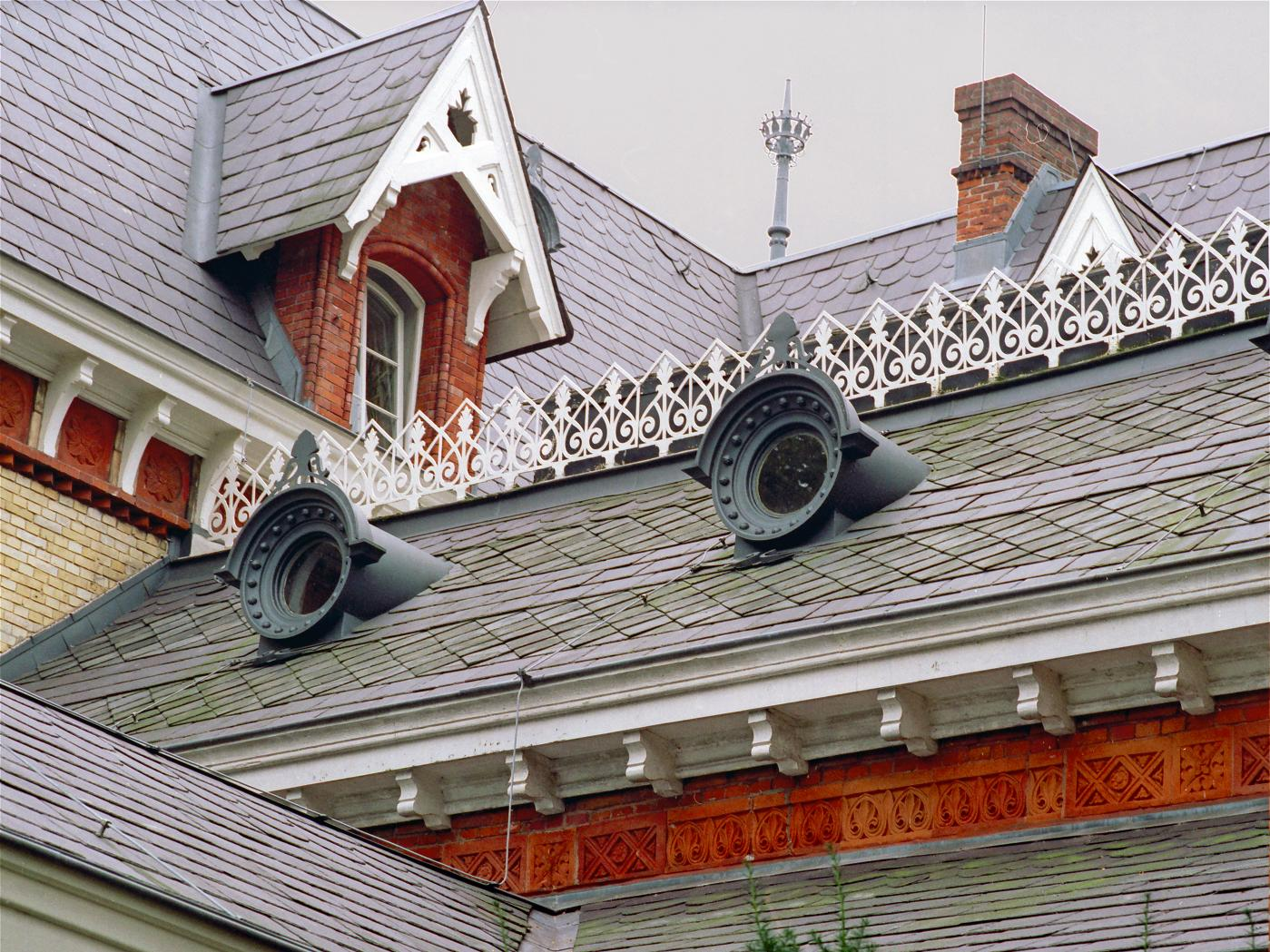 Moorrege (Schleswig-Holstein, Germany), “Düneck-Castle“, photo: 1997